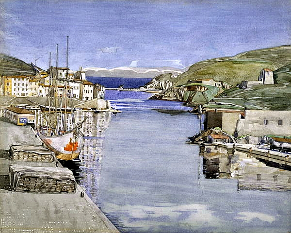 A Southern Port